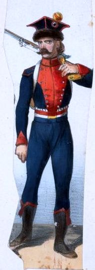 Soldier of Polish Legion in Italy 1796